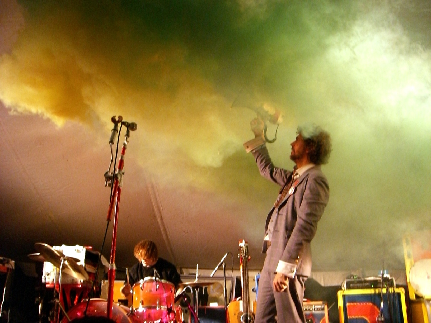 United States indie band The Flaming Lips at Fox and Hound.